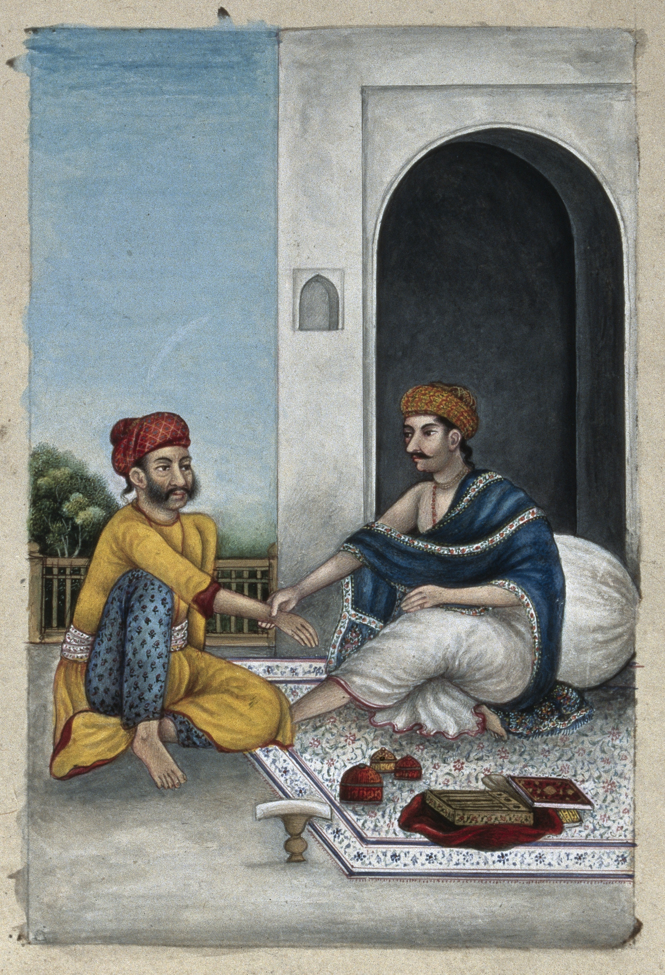 Ayurvedic medicine. Indian Watercolour: 'Man of the Medical caste, physician.' Iconographic Collections